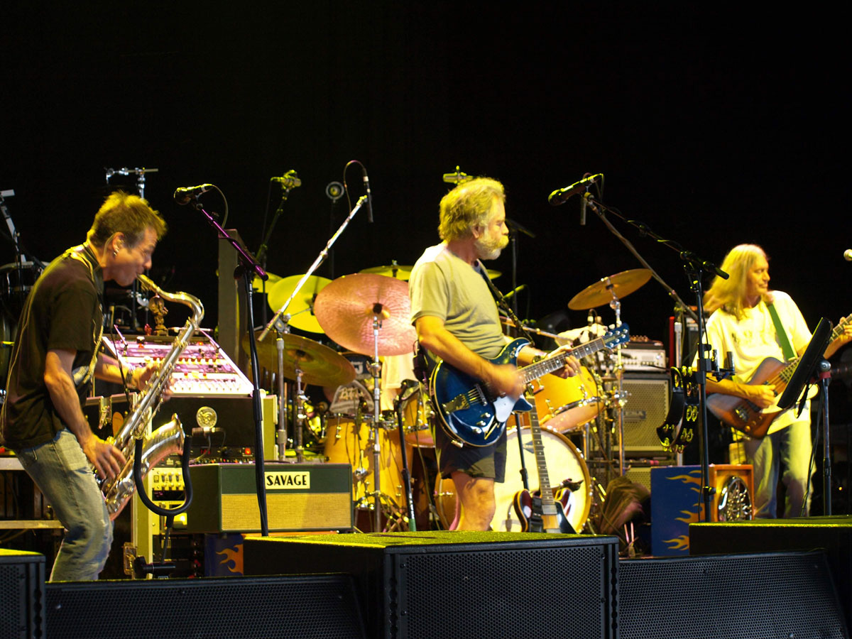 RatDog concert photo showing Kenny Brooks, Bob Weir, Robin Sylvester, playing on April 18, 2009, at the PNC Bank Arts Center. Photo by John Gullo.